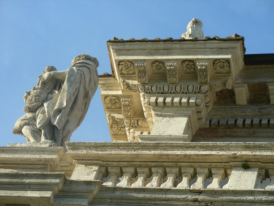 Rome, church of Saint Francesca Romana, right side of front